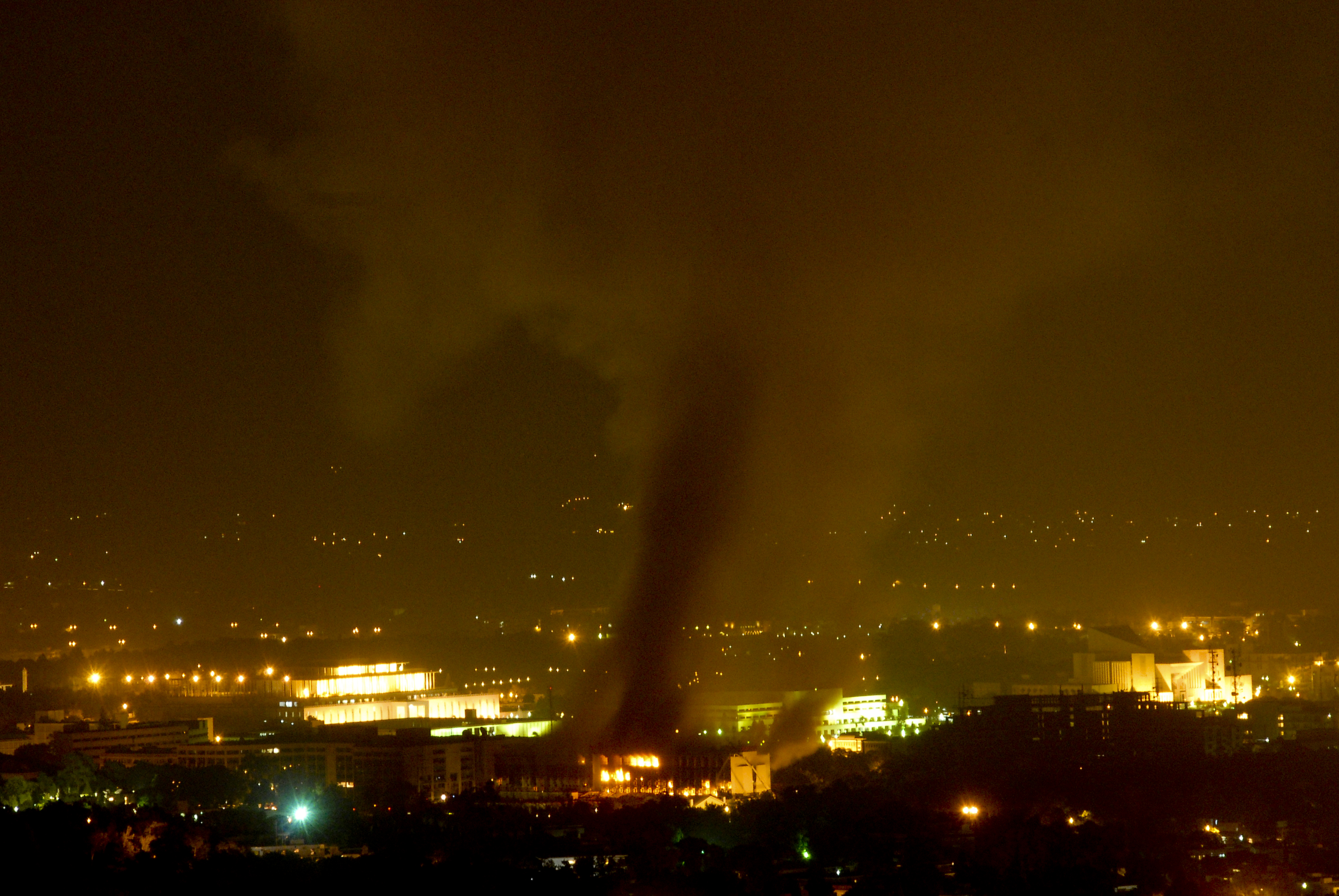 The Marriott Hotel in Islamabad, Pakistan shortly after a massive truck bomb detonated just outside the entrance on September 20, 2008.